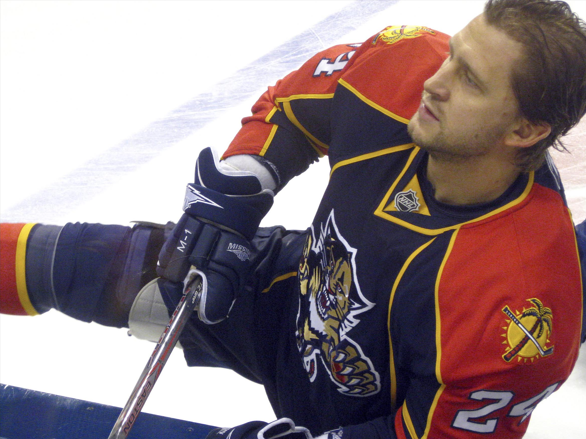 Ruslan Salei before a game versus the Washington Capitals on 15 November 2007.